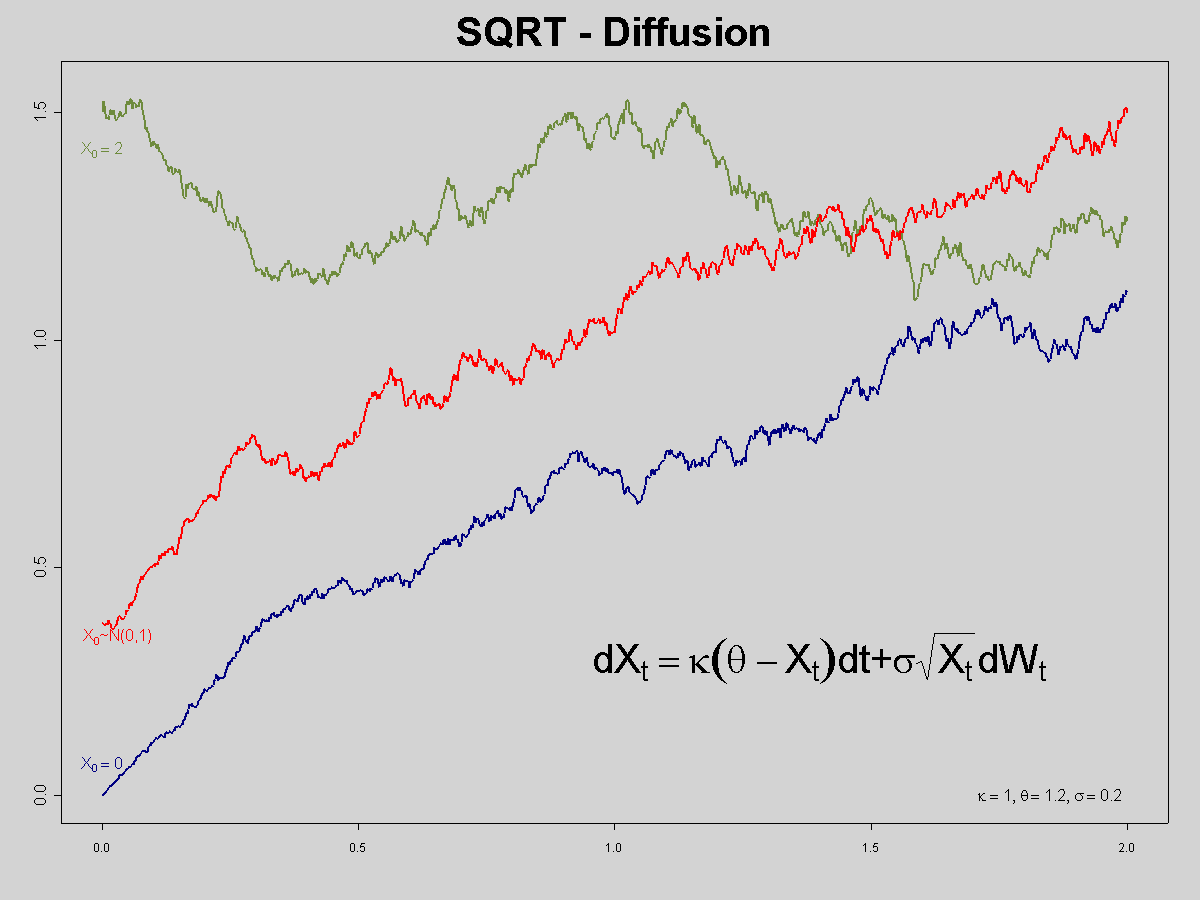 three sample paths of an square root diffuion process (Cox Ingersoll Ross), see SDE in the image